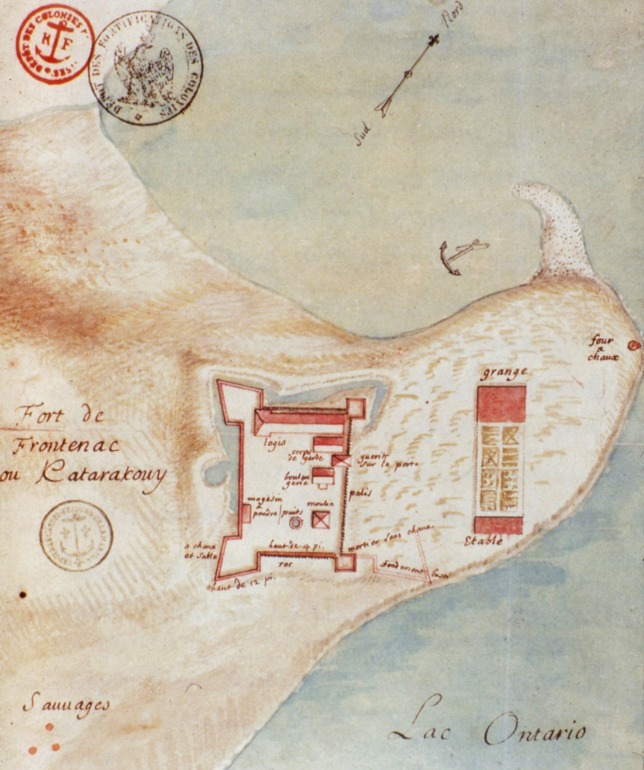 Fort Frontenac at Cataraqui, 1685.